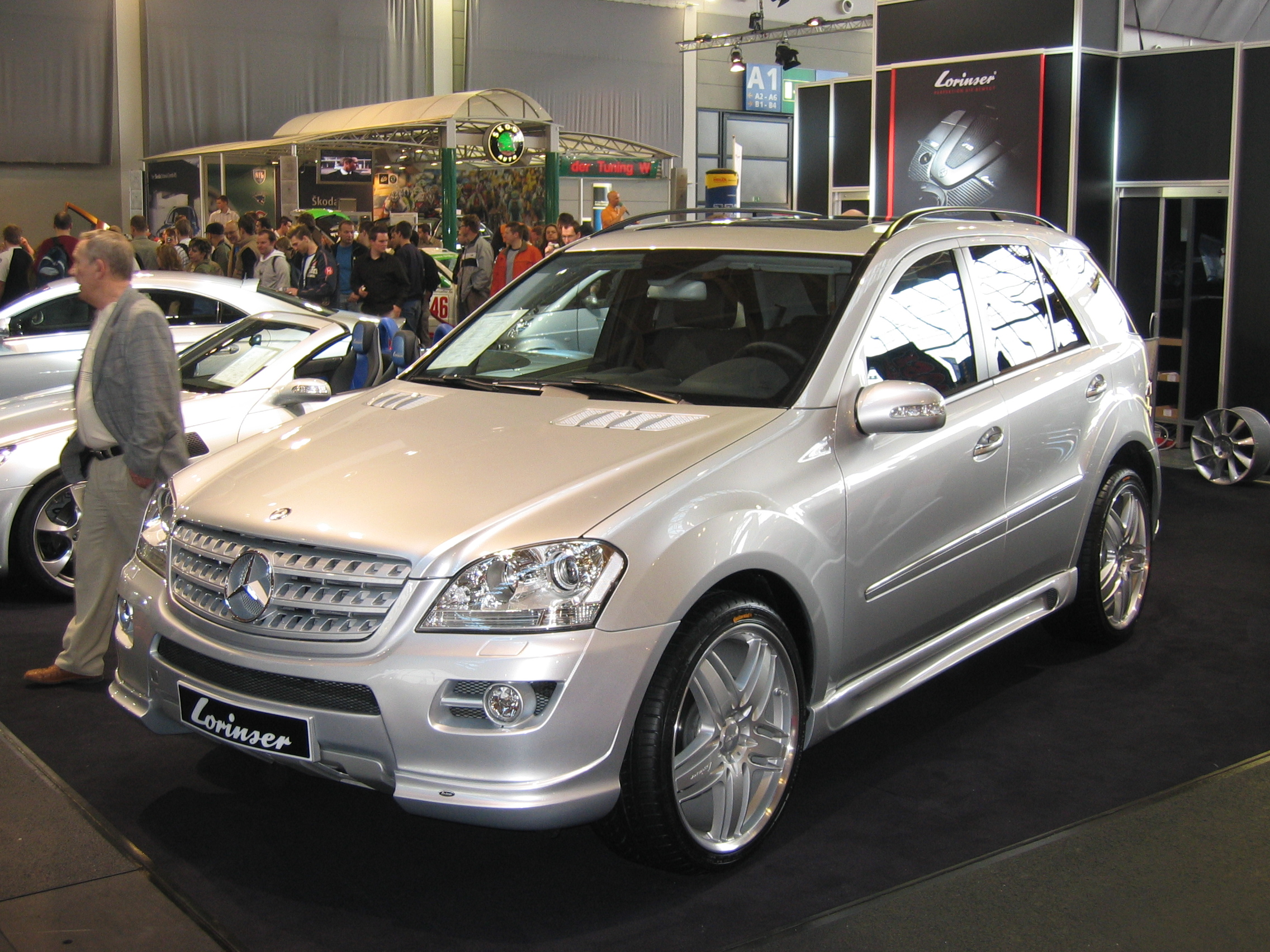 Mercedes-Benz M-Class (W164) with Lorinser styling